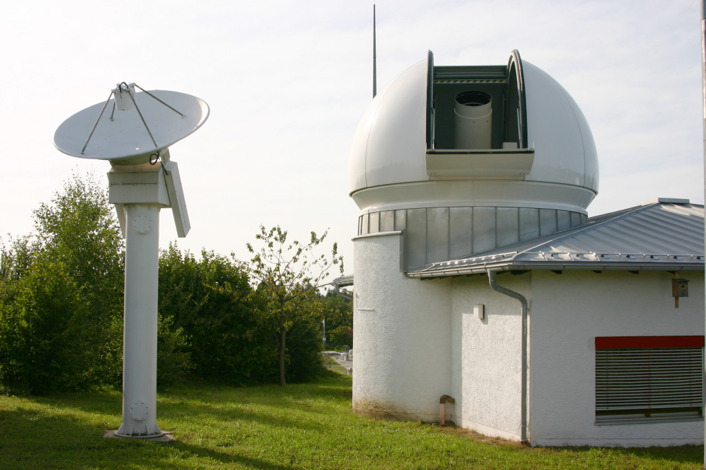 Wettzell Laser Ranging System (WLRS), the satellite and lunar laser ranging system of the geodetic observatory in Wettzell, Bavaria. The 75cm telescope in the dome is both used to send the laser pulses and to observe the reflected signal. The small radar dish besides the dome is used to monitor air traffic: The laser is automatically switched off when a aircraft approaches the target position of the laser.